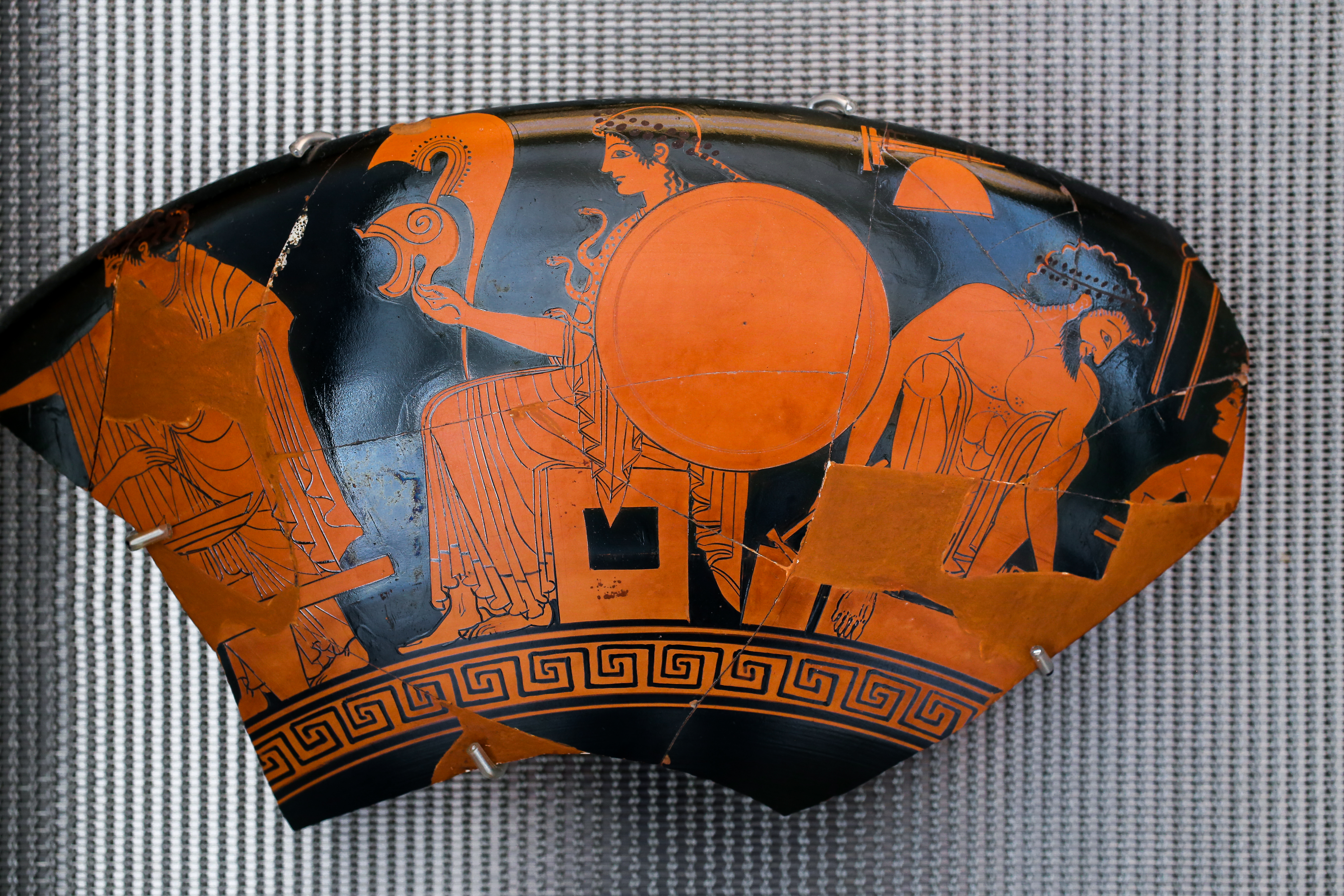 object type / vase shape: attic red figure cup (kylix) - description (interior lost) - exterior: Athena protecting the crafts: fragment A: youth standing and a person sitting (only hand preserved) painting a vase placed on the potters wheel, Athena sitting, holding shield and helmet, bearded man with hammer and youth with forge sitting at a metal-workers furnace - fragment B: horse (probably a statue) between two sculptors - production place: Athens - painter: Euergides Painter - period / date: late archaic, ca. 510 BC - material: pottery (clay) - findspot: Athens, Akropolis - museum / inventory number: Athens, National Archaeological Museum Akr. 166 - bibliography: John D. Beazley, Attic Red-Figure Vase-Painters, Oxford 1963(2), 92, 64 - Please note: The above museum permits photography of its exhibits for private, educational, scientific, non-commercial purposes. If you intend to use the photo for any commercial aime, please contact the museum and ask for permission.